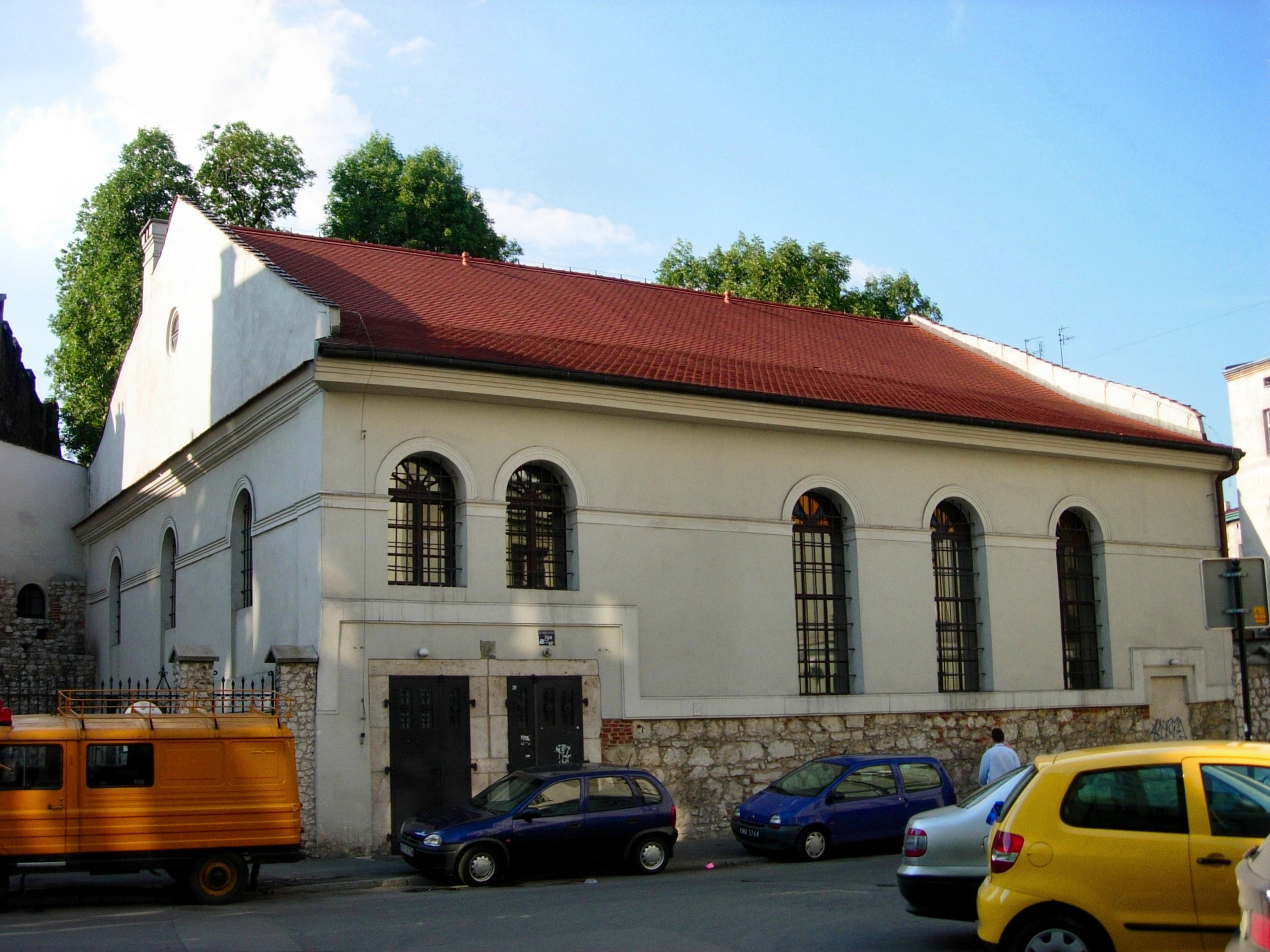 Kupa Synagogue in Warszauera Street, Kraków